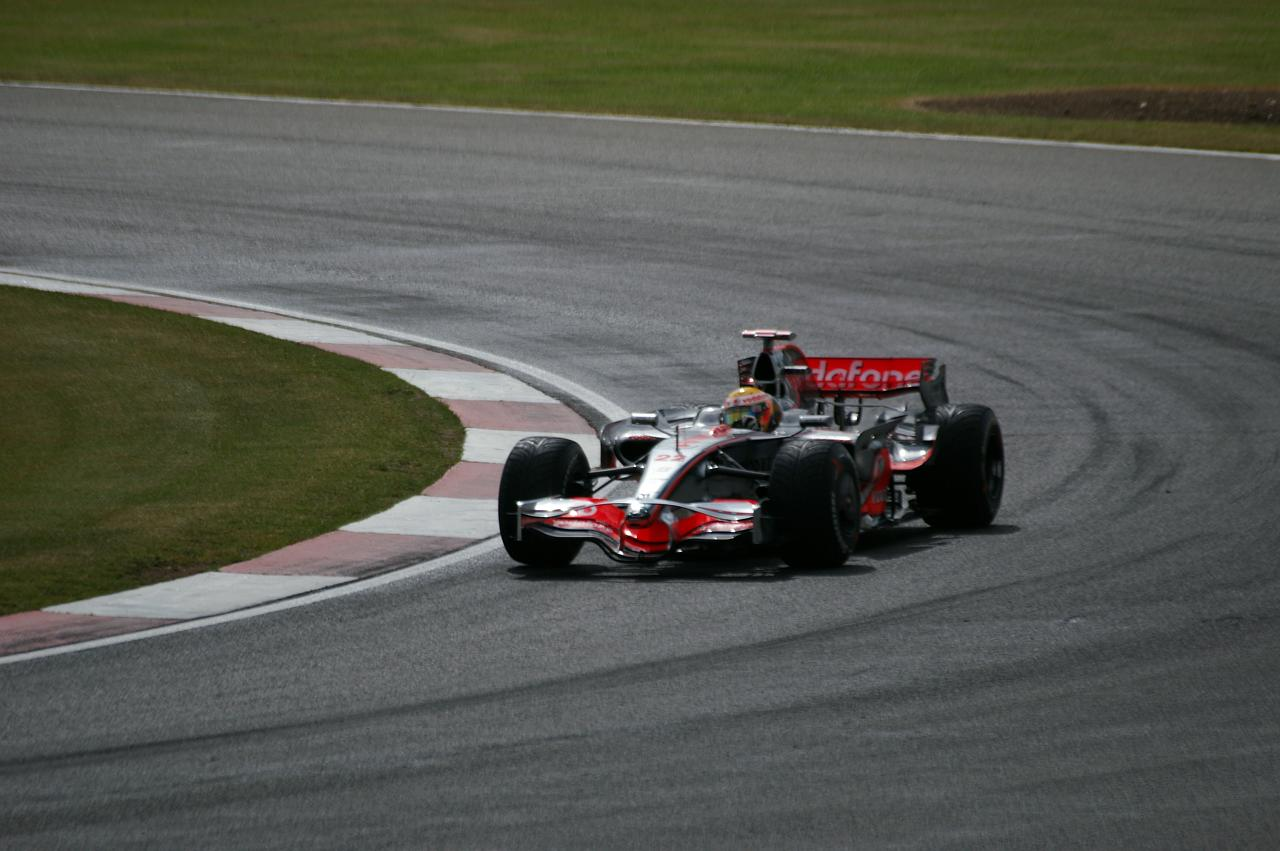 Formula 1 Santander British Grand Prix at Silversone 2008 Lewis Hamilton